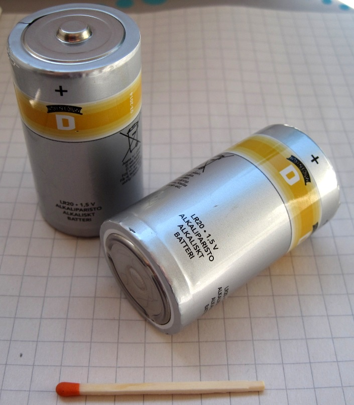 2 D type batteries with a matchstick for comparison. This is an ordinary matchstick like the kind that comes in match boxes. It is not a giant or super matchstick, in fact you probably have one in your home right now!